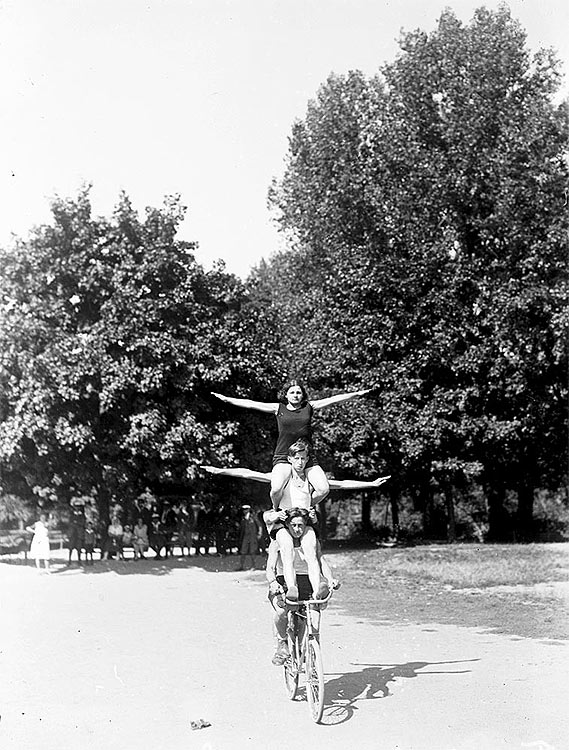 Josef Seidel